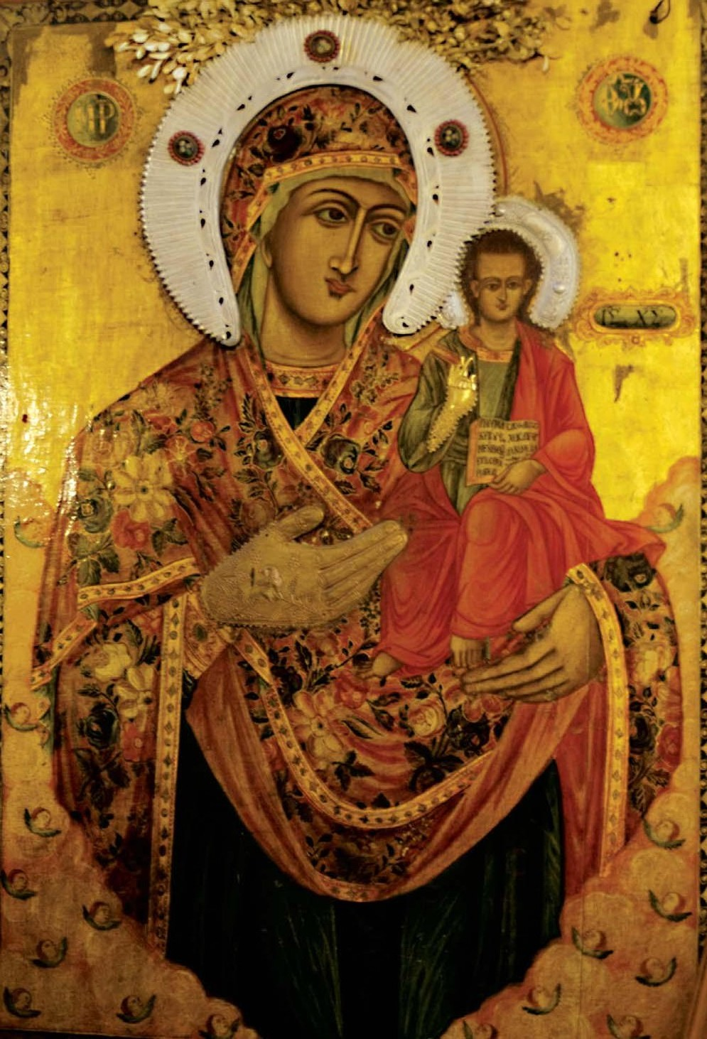 Saint Mary Icon in the Ascension of Jesus Church in Vladimirovo